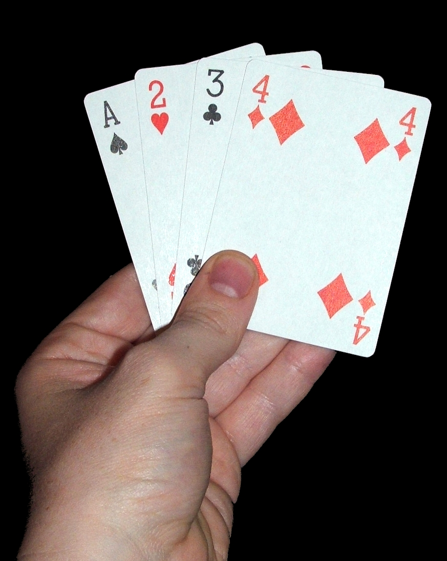 A 4-high badugi, the best possible hand in the poker variant badugi